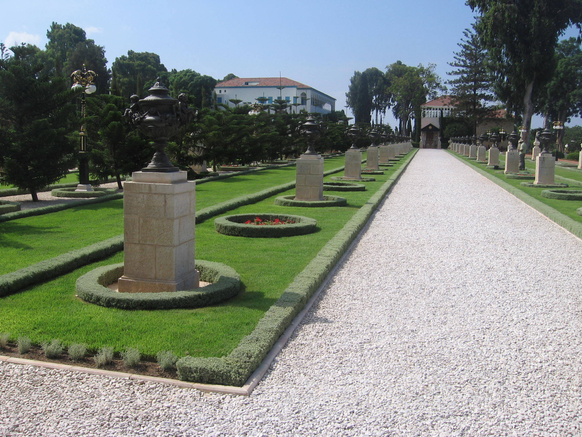 Geography of Israel